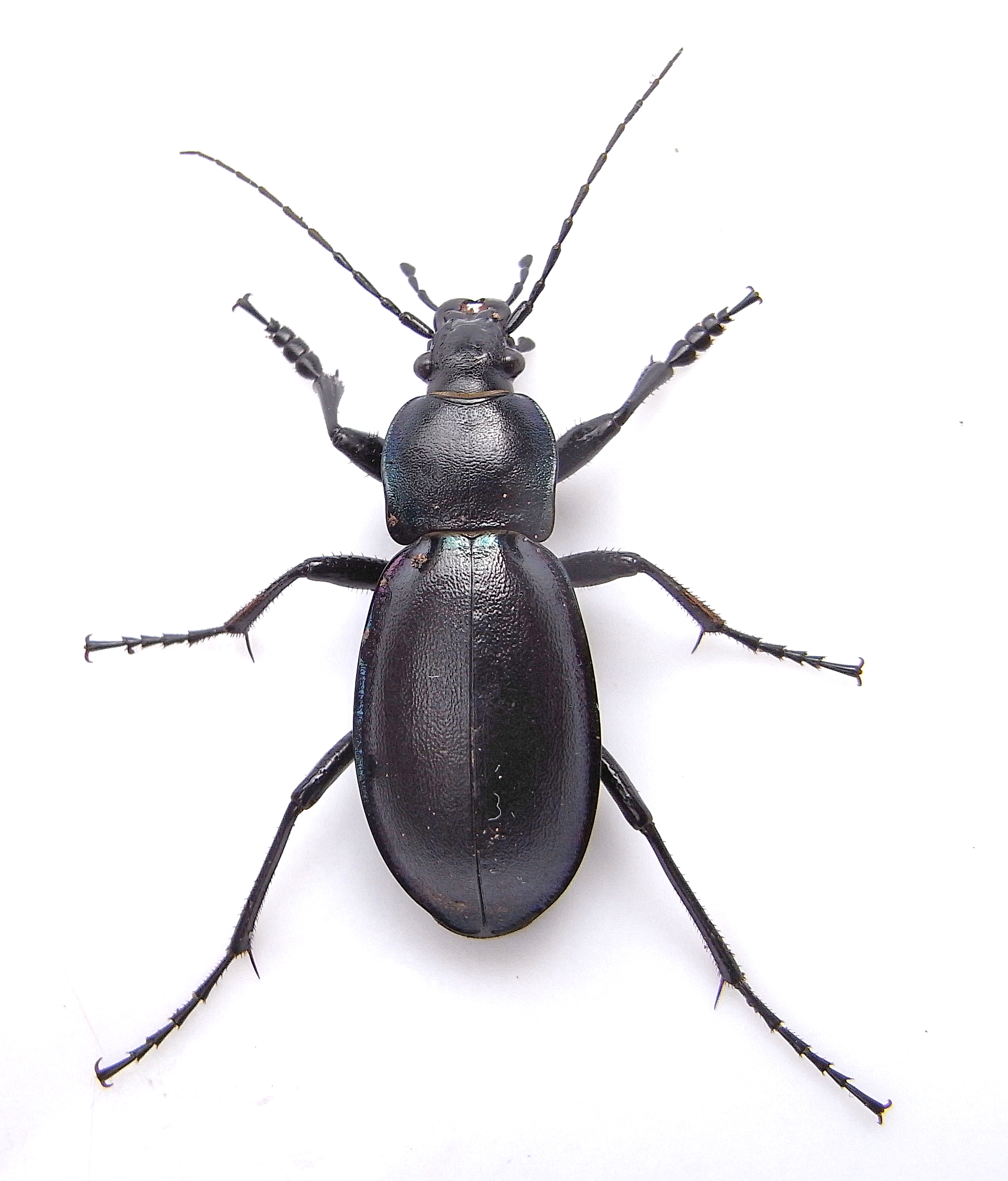 Carabus violaceus from Hungary, Matra-mountains at 2010-06-26 Ricoh R8